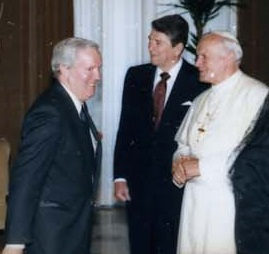 Frank Shakespeare meets John Paul II with Ronald Reagan looking on at the Apostolic Palace in 1987